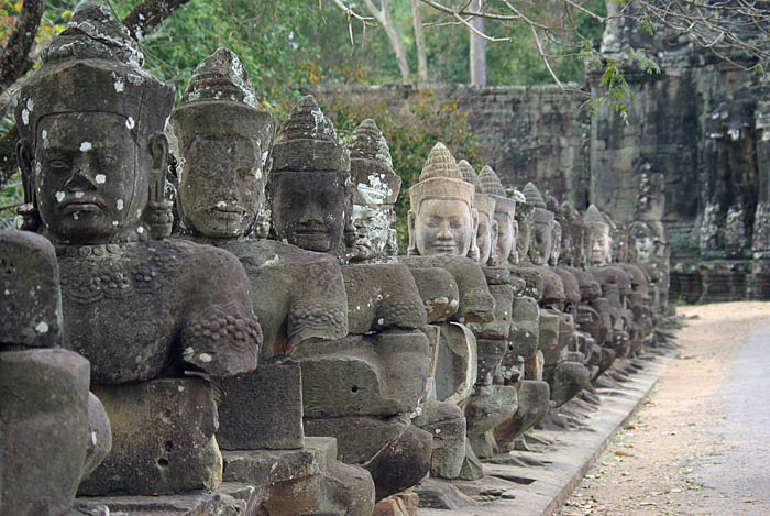 The Gods at south gate of Angkor Thom